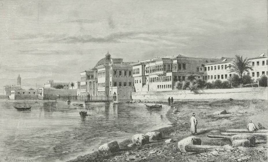 "View of a large palace against the water." The Ras el-Tin Palace, on the Mediterranean in Alexandria.